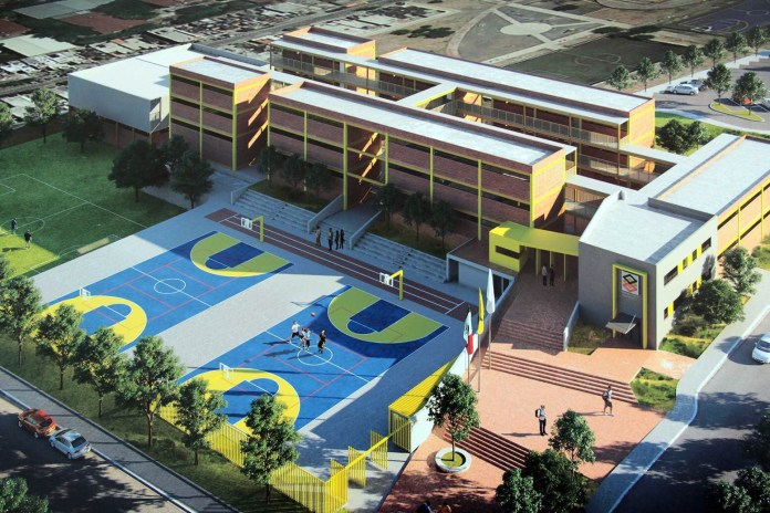 Futura prepa Politécnica en Santa Catarina